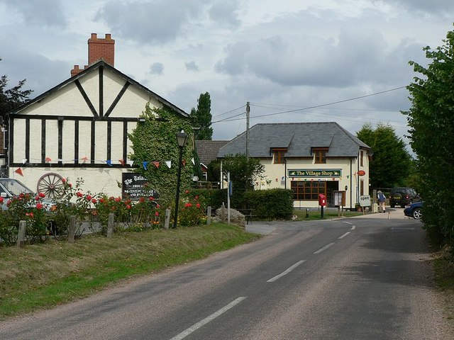 The Village Shop, and The Talaton Inn The Village Shop is a cooperative venture, owned by a community association. See its page on the village website